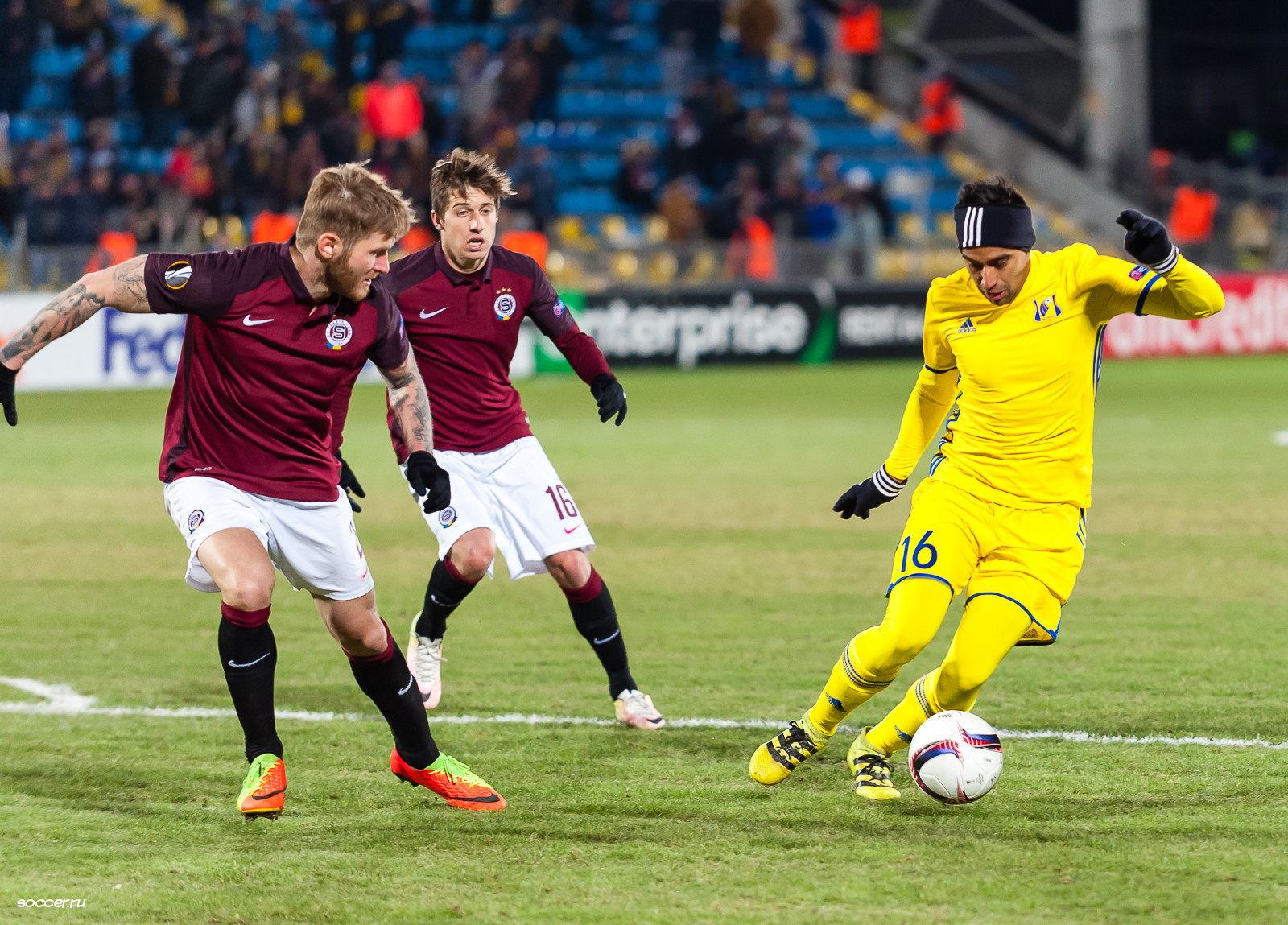 «Ростов» - «Спарта» (16.02.2017)